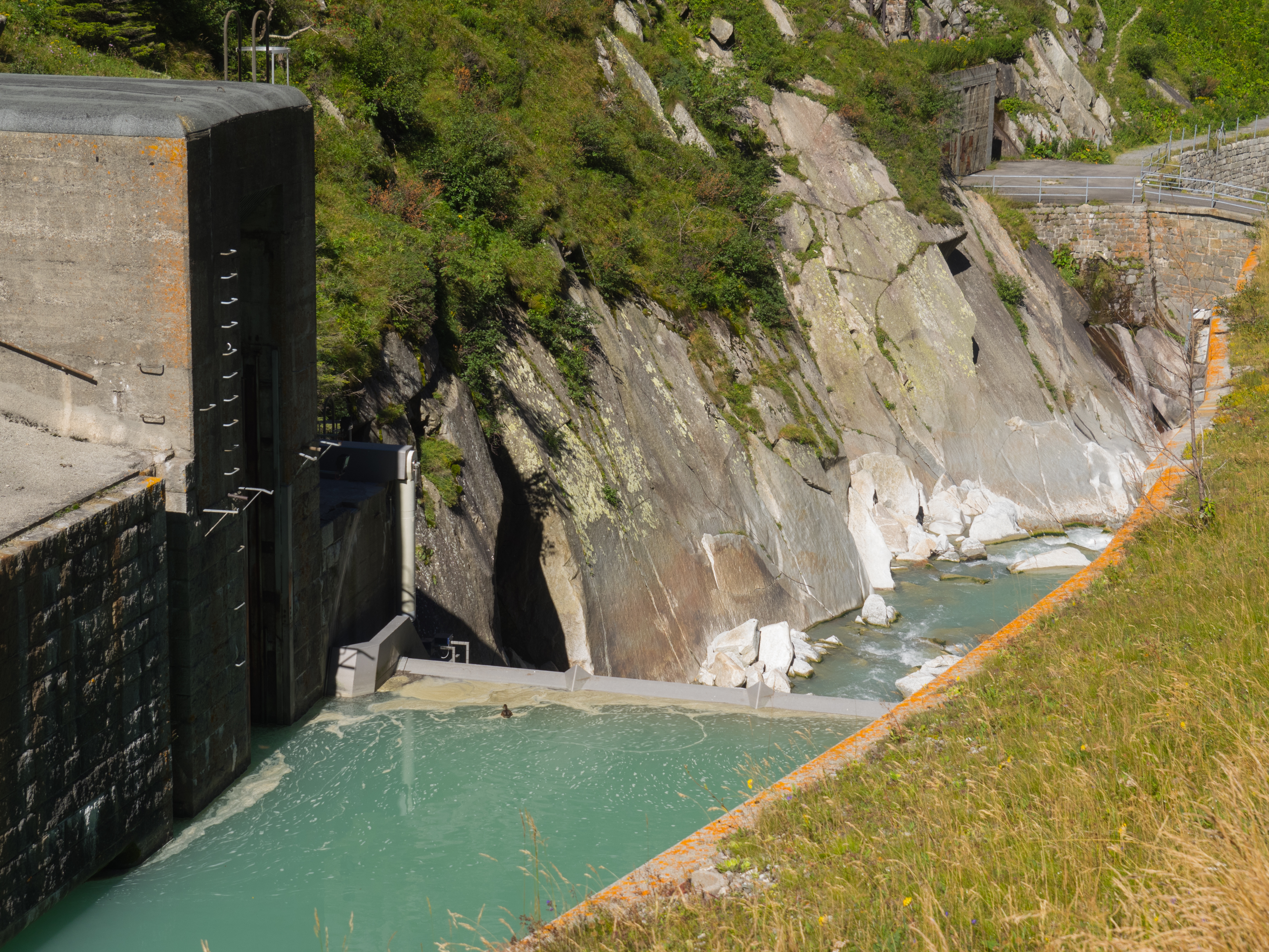 Weir Dam over the Reuss River, Andermatt, Uri, Switzerland